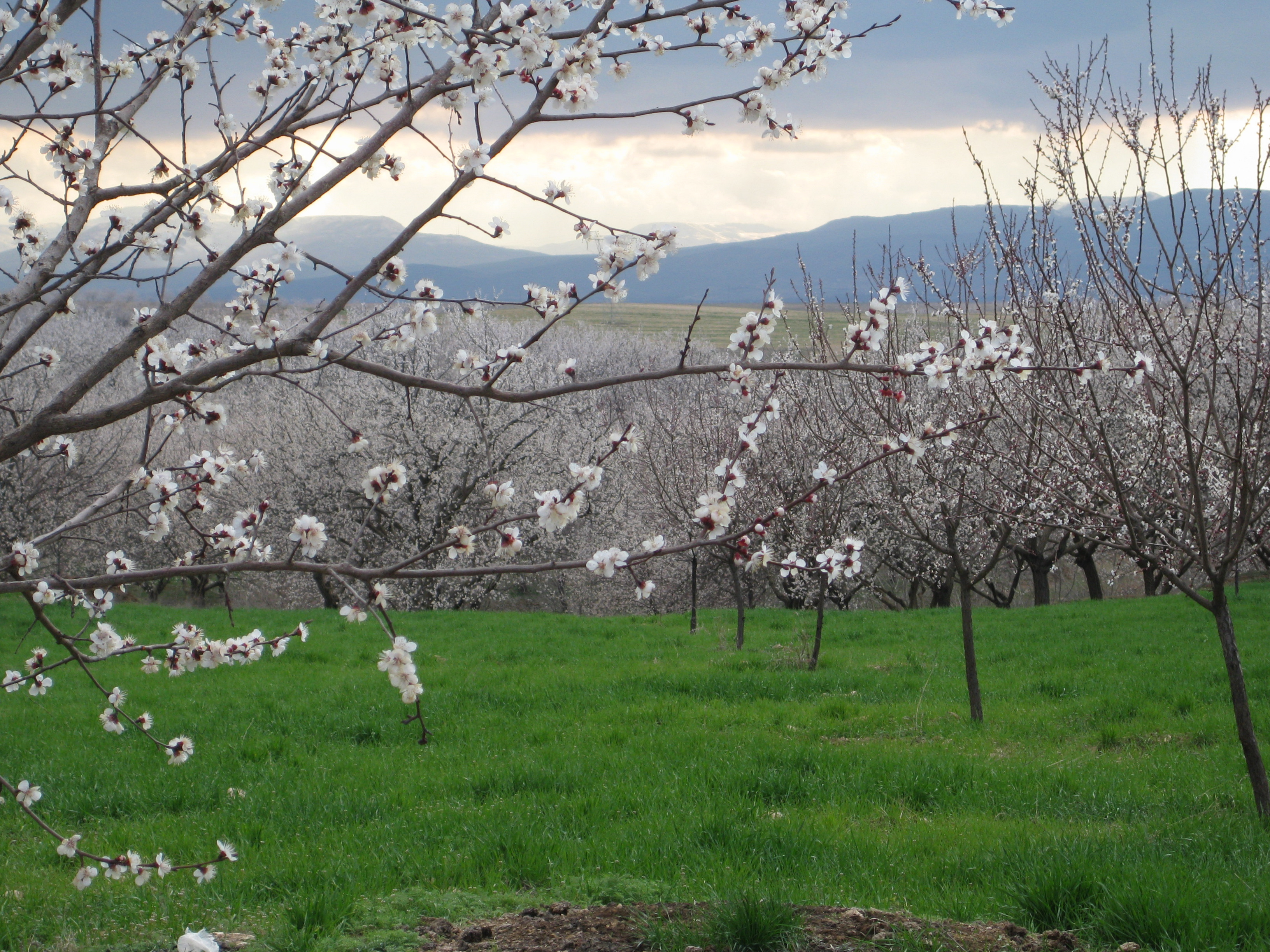 The picture shows early blossoms of apricot trees in the Malatya region (Turkey). The extensive valley is surrounded bij a mountain chain. When the snow melts in spring, the water flows down to the plains where the apricot trees await and use the water during the whole growing season, as it is dosed because of the melting process.